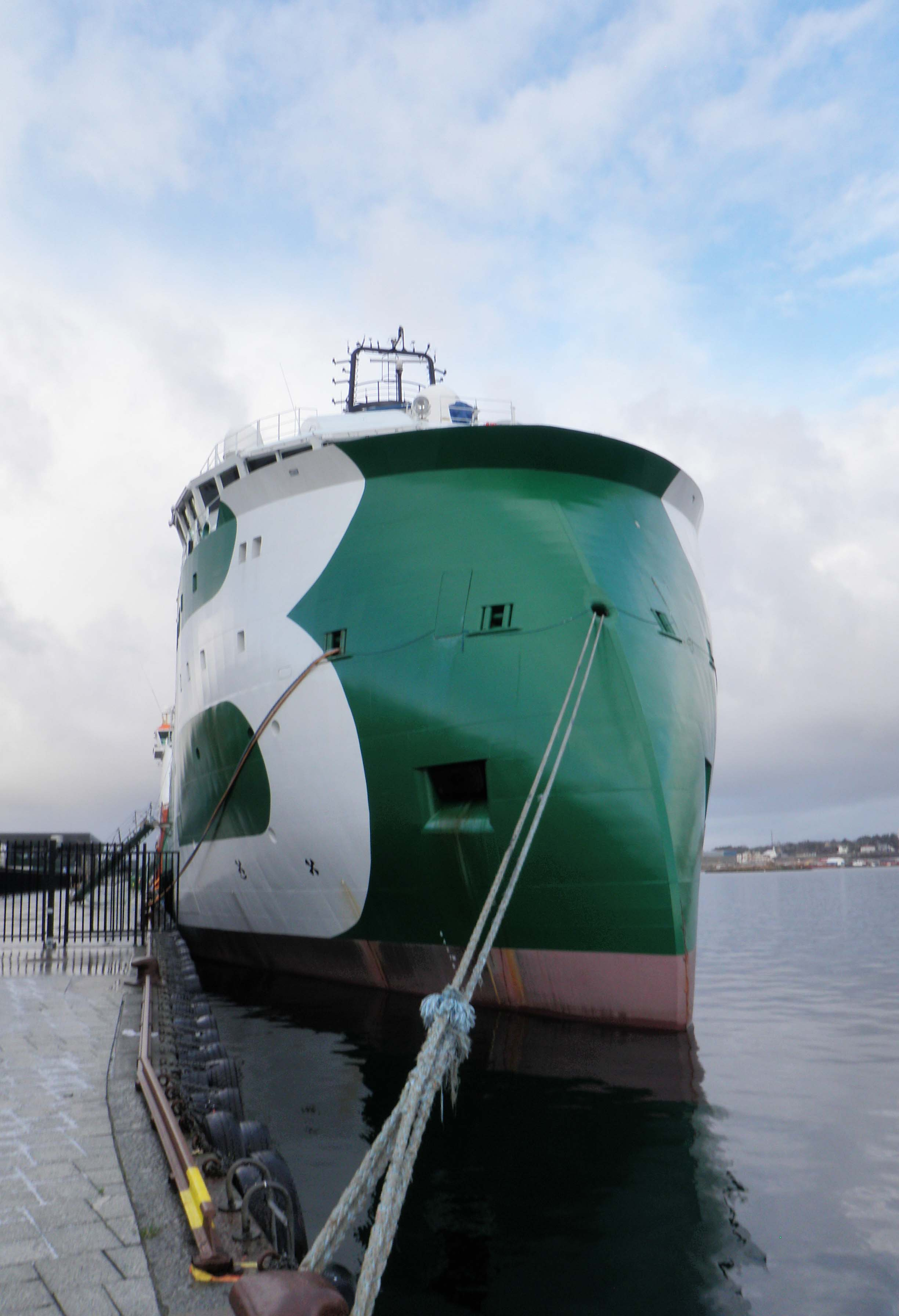 The Norwegian anchor handling tug supply vessel MS Bourbon Orca at anchor in Stavanger, Norway.